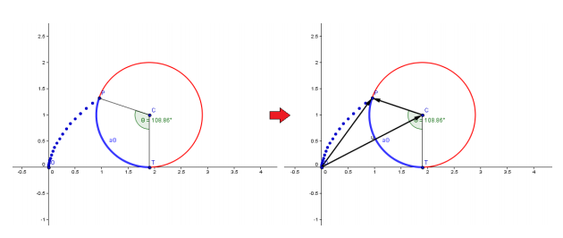 Vetores cicloide